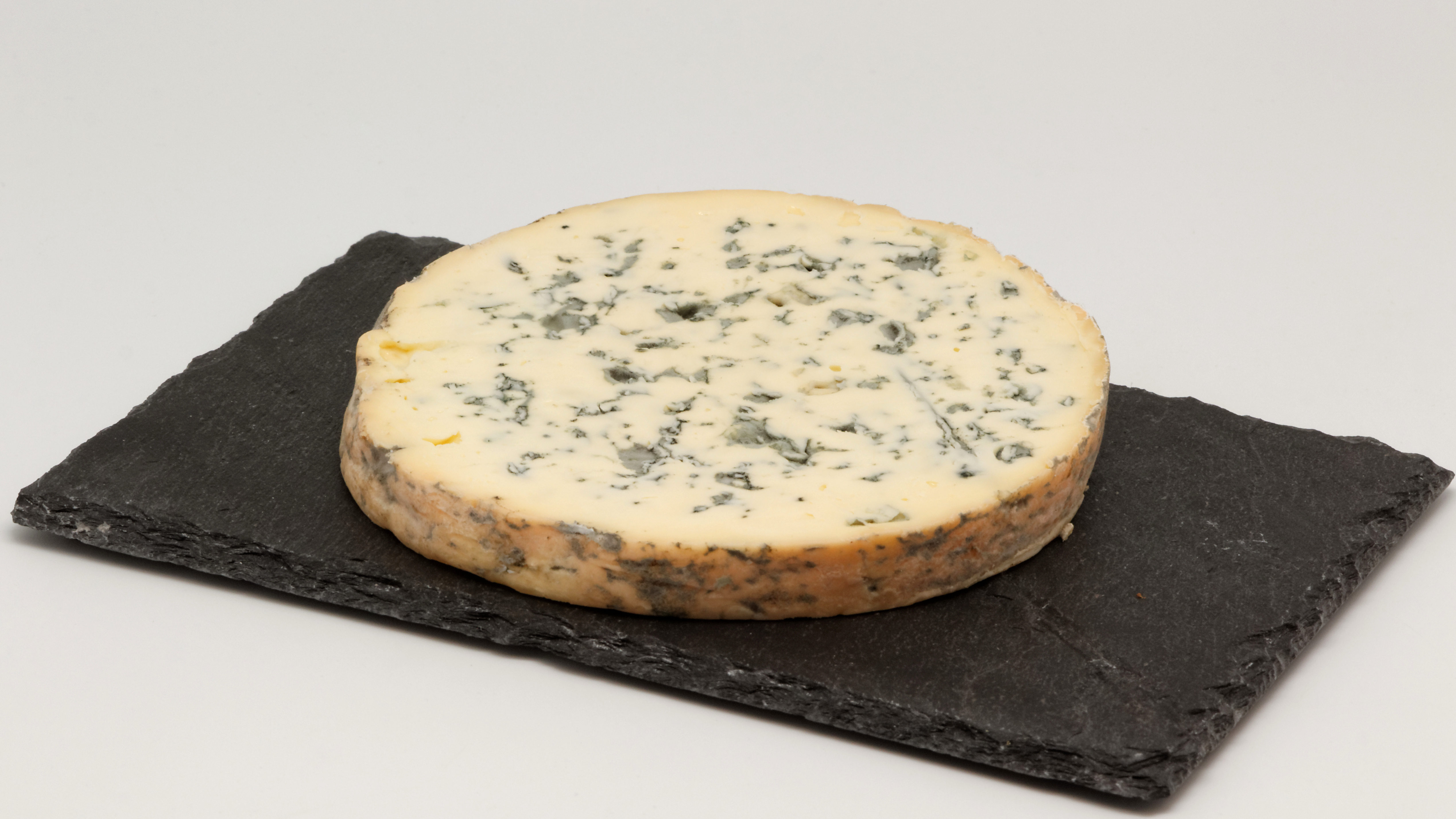 Fourme d'Ambert (cow's milk cheese)